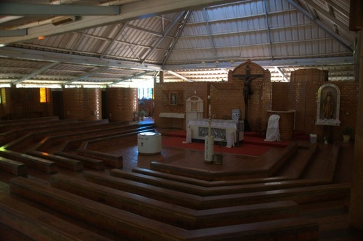 Catholic church interior in Lusaka.